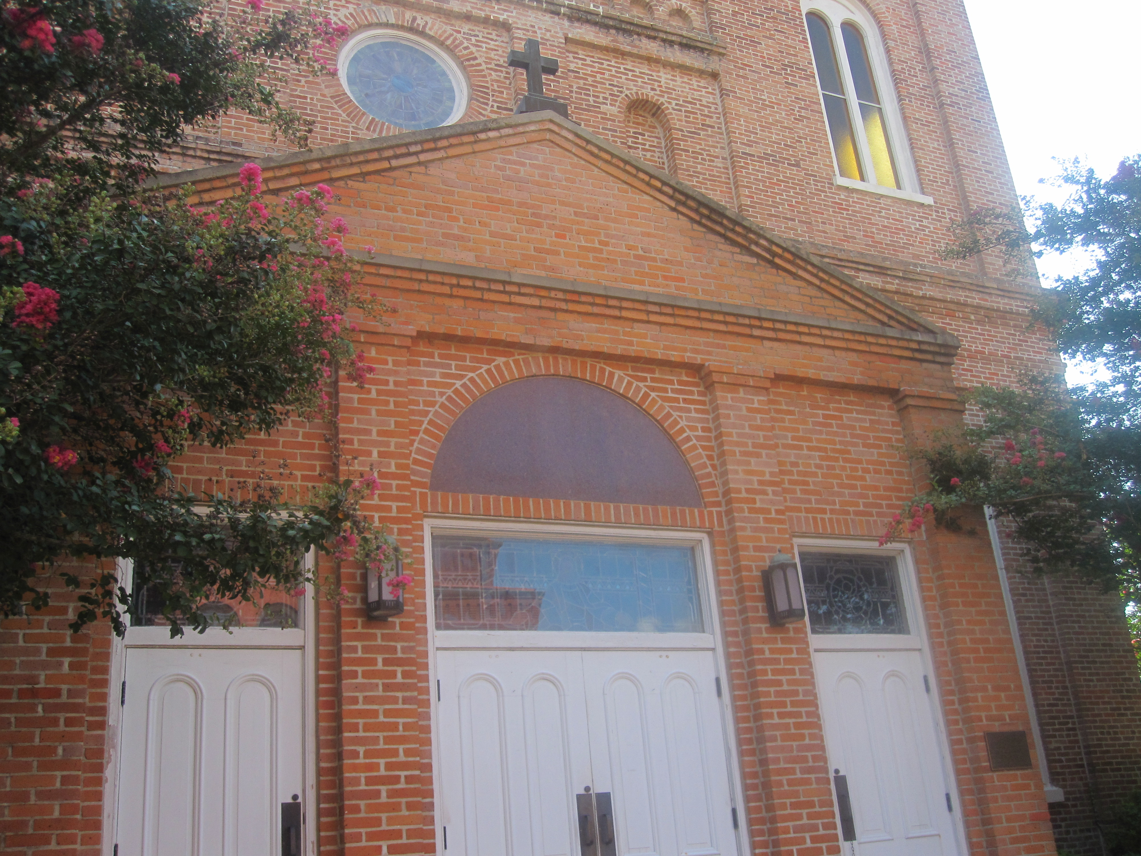 Church of the Immaculate Conception sign in Natchitoches, LA